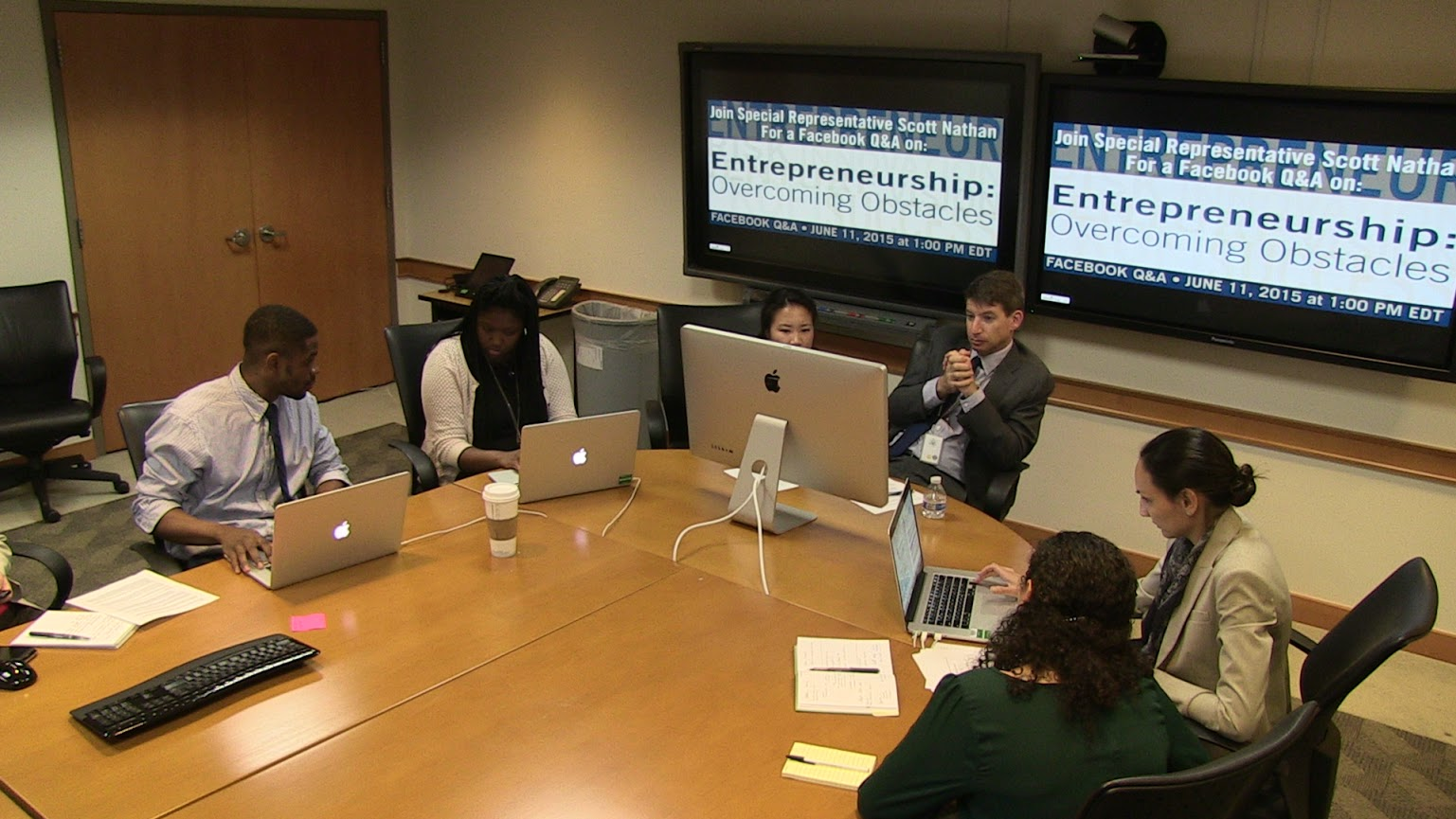 Special Representative for Commercial and Business Affairs Scott Nathan participates in a Facebook Q&A on Entrepreneurship on June 11, 2015. [State Department photo/ Public Domain]